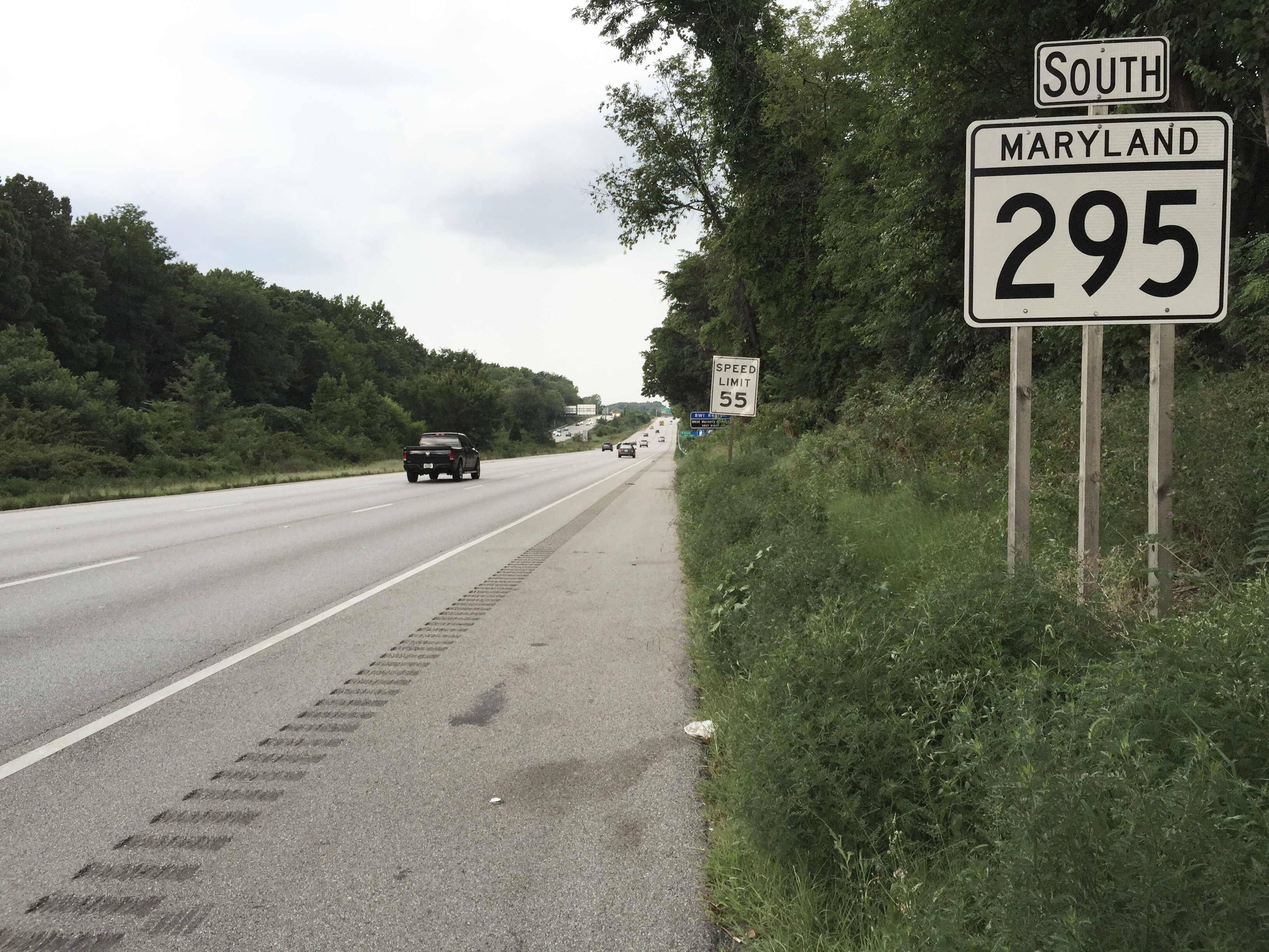 View south along Maryland State Route 295 (Baltimore-Washington Parkway) just south of Interstate 695 (Baltimore Beltway) in Linthicum, Anne Arundel County, Maryland